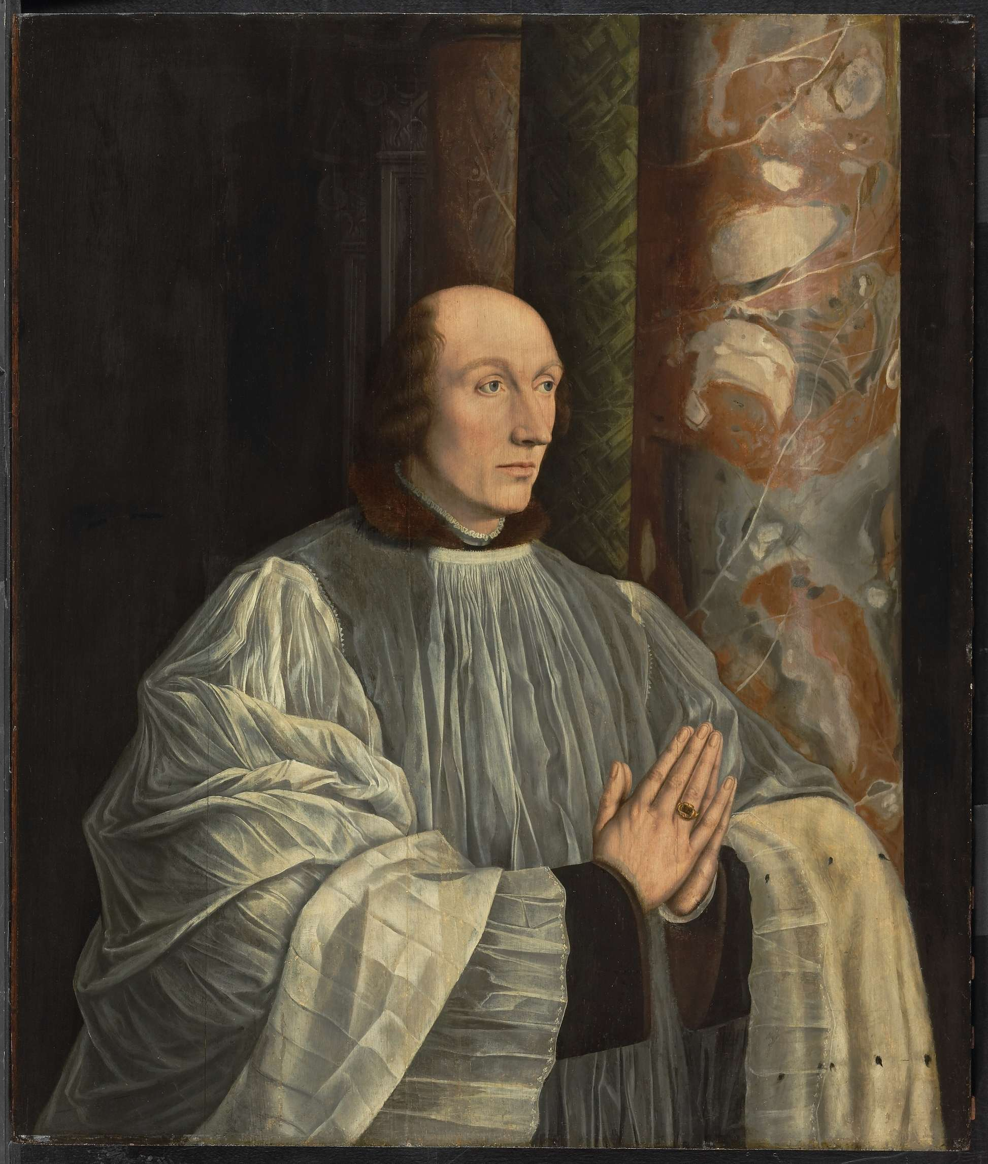 George van Egmond